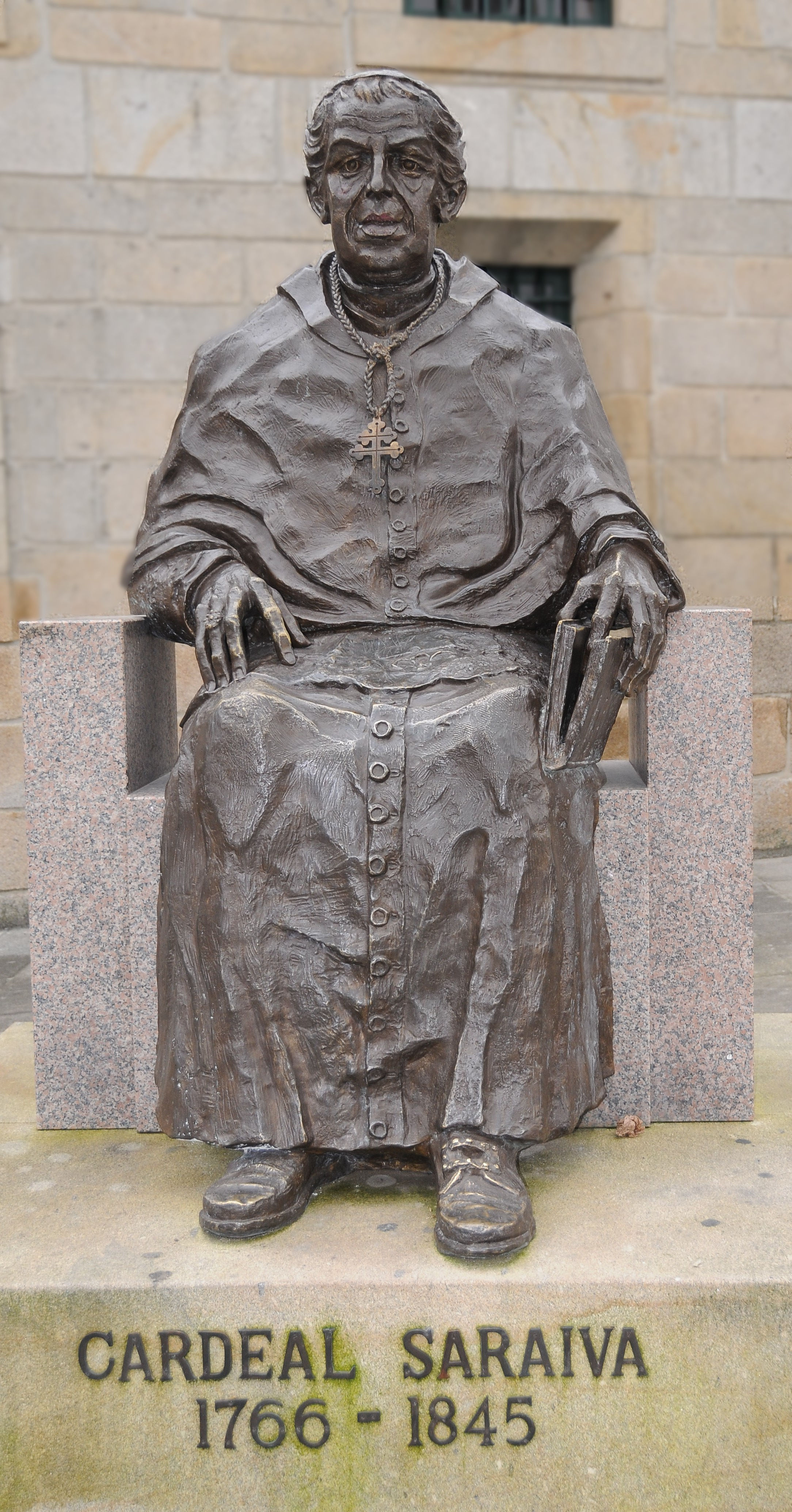 Statue of Cardeal Saraiva in Ponte de Lima, Portugal.